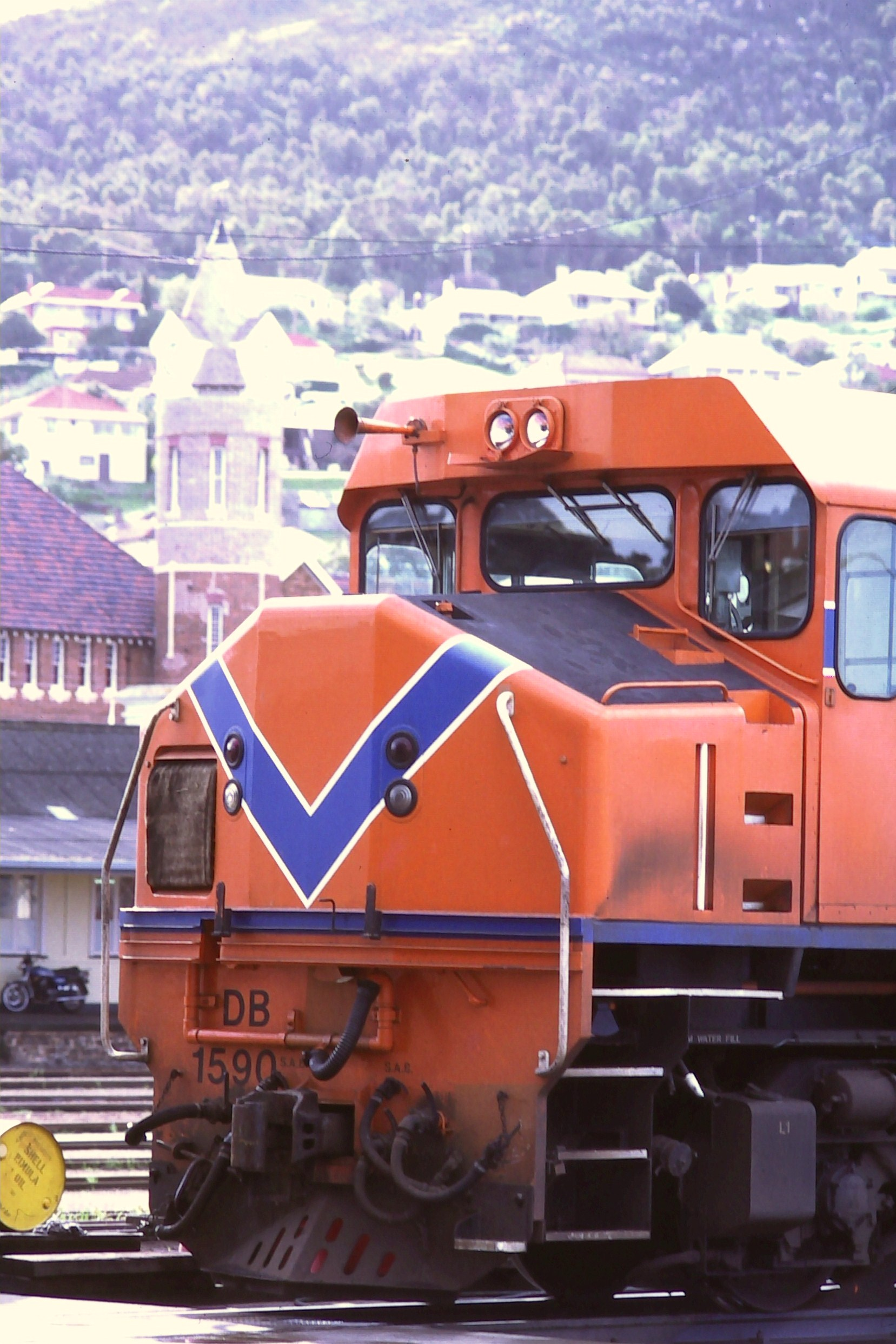 Portrait of Western Australian Government Railways (WAGR) DB class diesel-electric locomotive no DB1590 Shire of Collie, in Westrail orange and blue livery, at Albany, Western Australia.Kodachrome slide converted by Kaiser Baas Photo Maker Pro into a digital image.